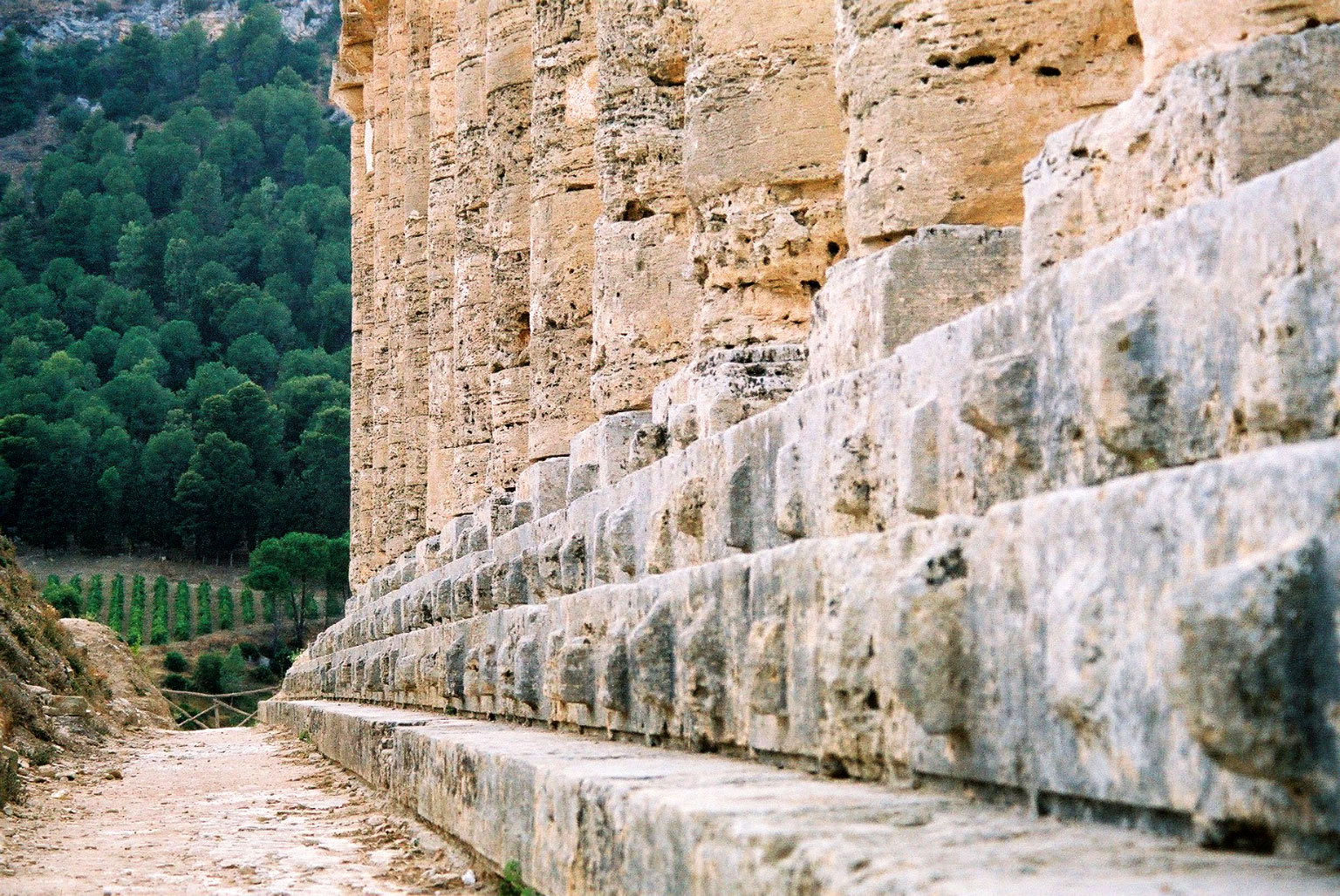 Temple of Segesta Steps of the stylobate